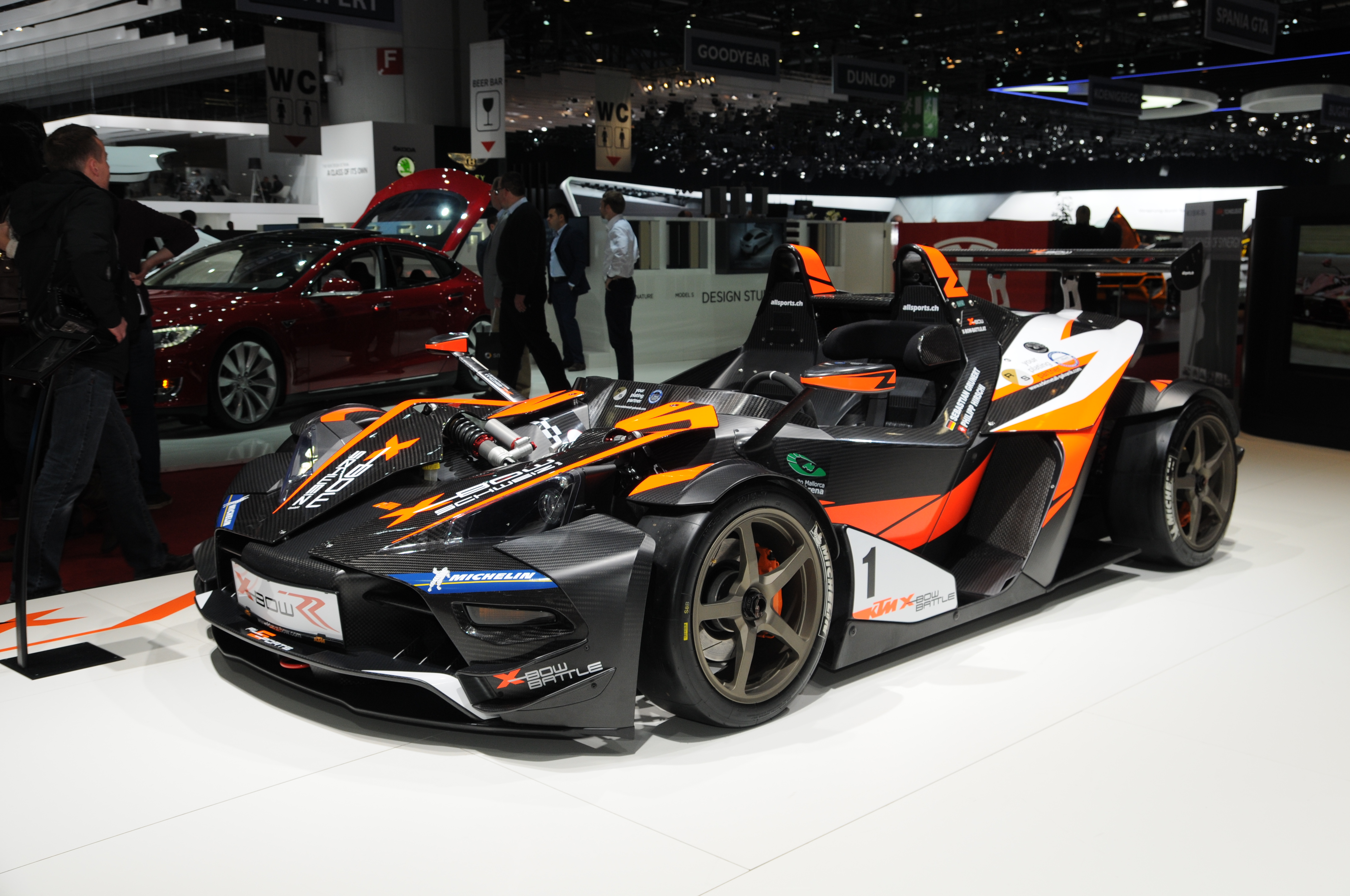 Geneva Motor Show 2013 (photos taken on the first press day)